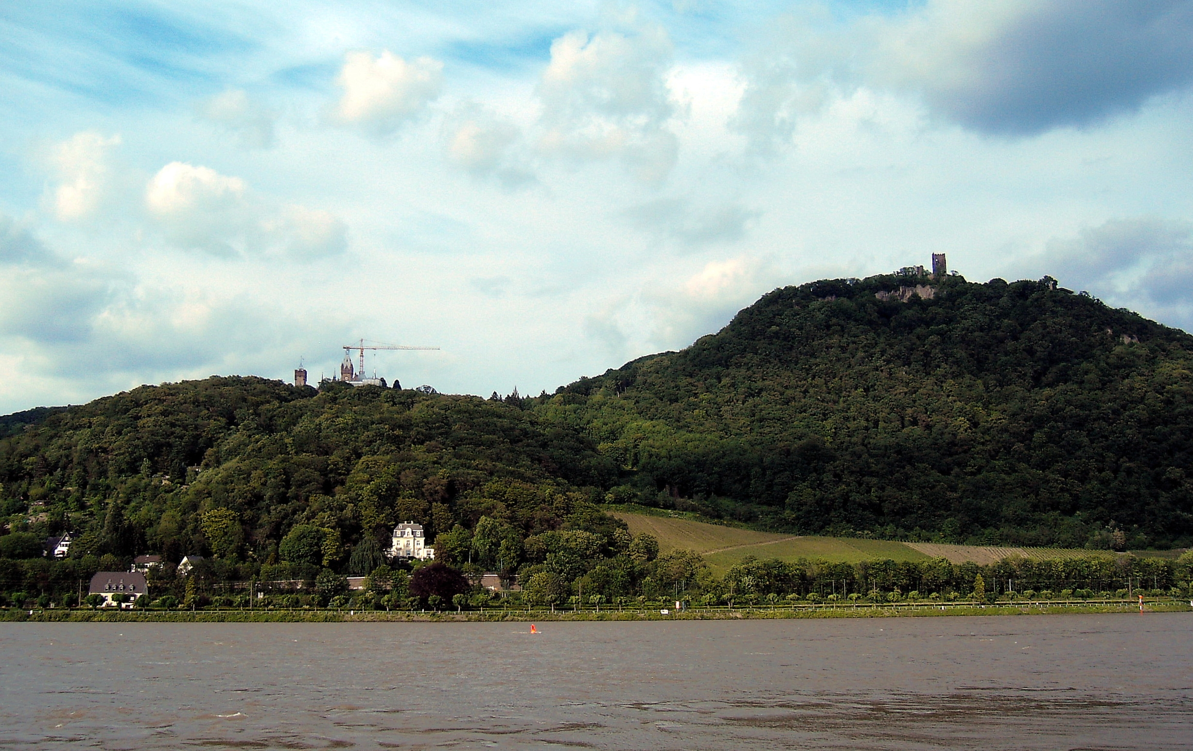 The Drachenfels in the Siebengebirge seen from the other side of the rhine in Bonn-Mehlem.